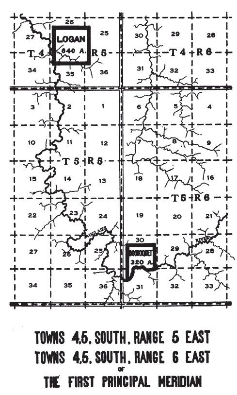 Map of federal land grants to Indian individuals in northwest Ohio known as the Indian Land Grants